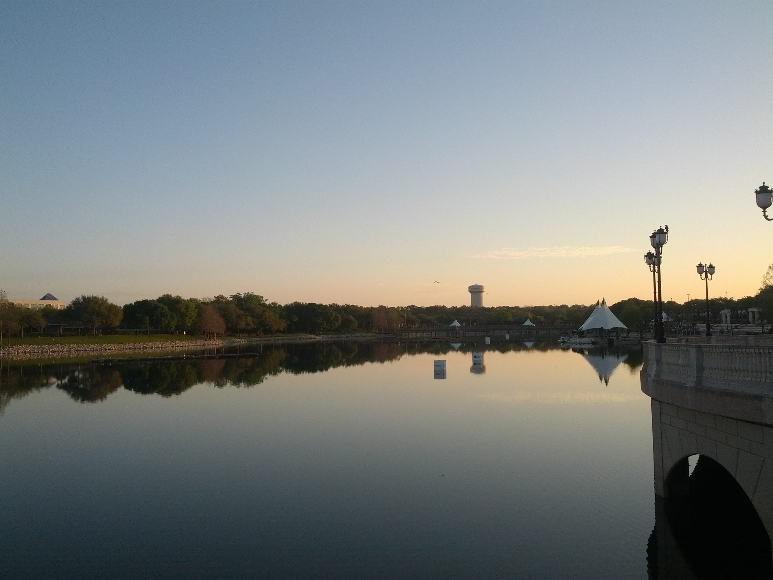 Cranes Roost Park is an amazing place to go for a walk or a run, this is how it looks in the morning as the sun rises.